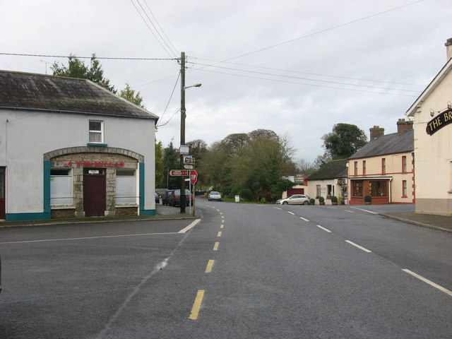 Mount Nugent, Co. Cavan Village near the shore of Lough Sheelin